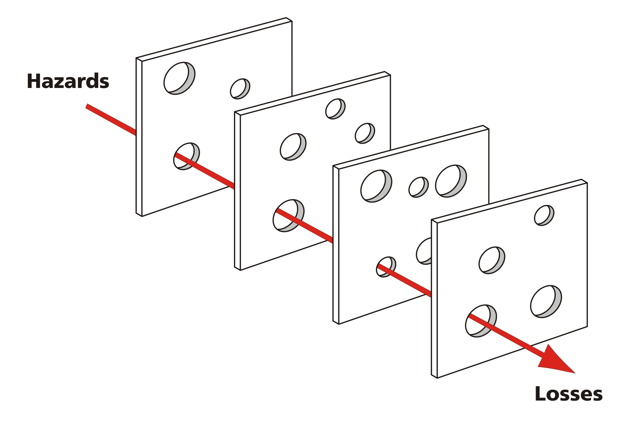 The Swiss cheese model of accident causation illustrates that, although many layers of defense lie between hazards and accidents, there are flaws in each layer that can allow the accident to occur. The model was propounded by Dante Orlandella and James T. Reason of the University of Manchester.